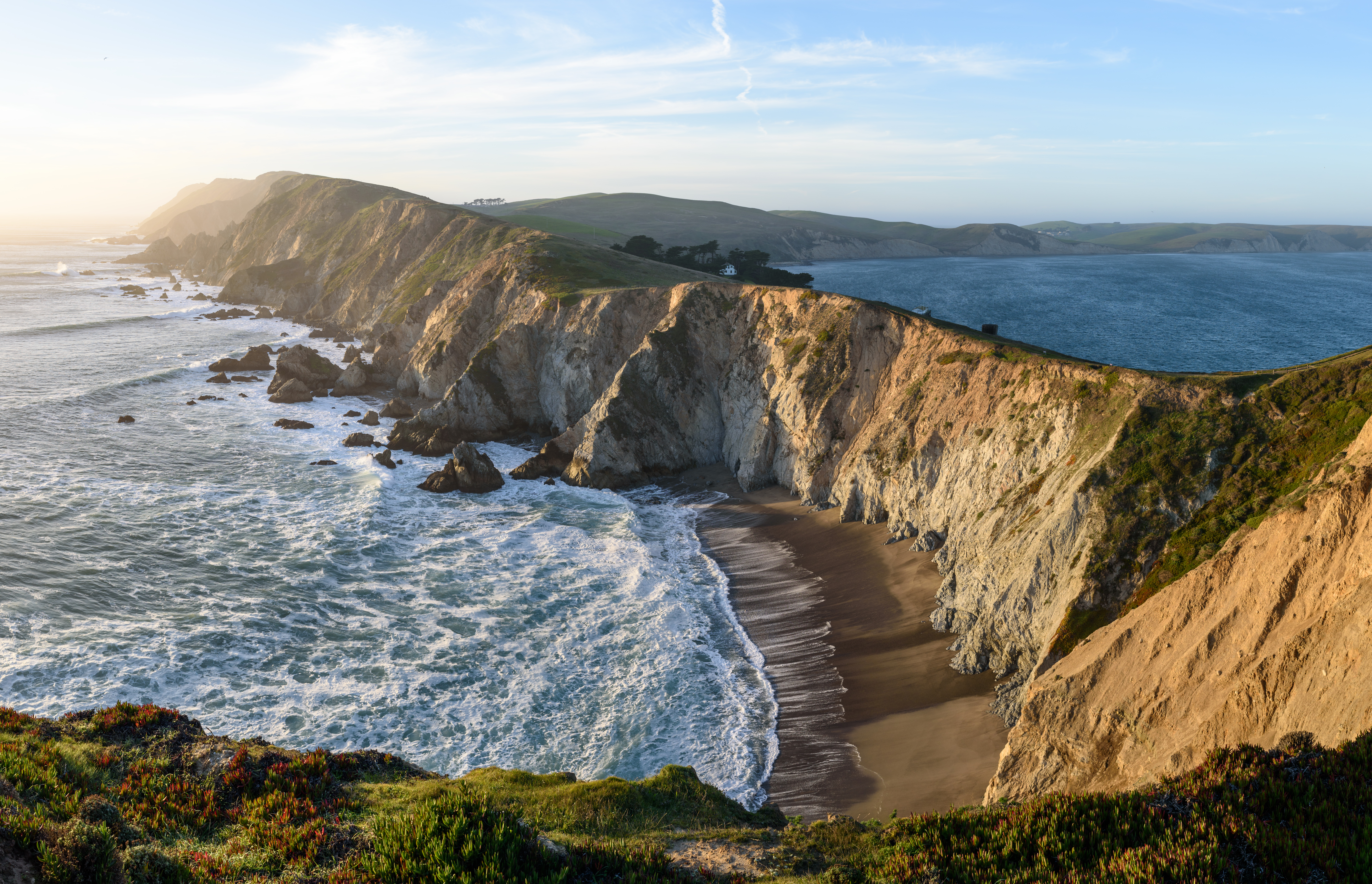 Three-segment panorama of Point Reyes headlands from Chimney Rock Trail, Point Reyes National Seashore, California.